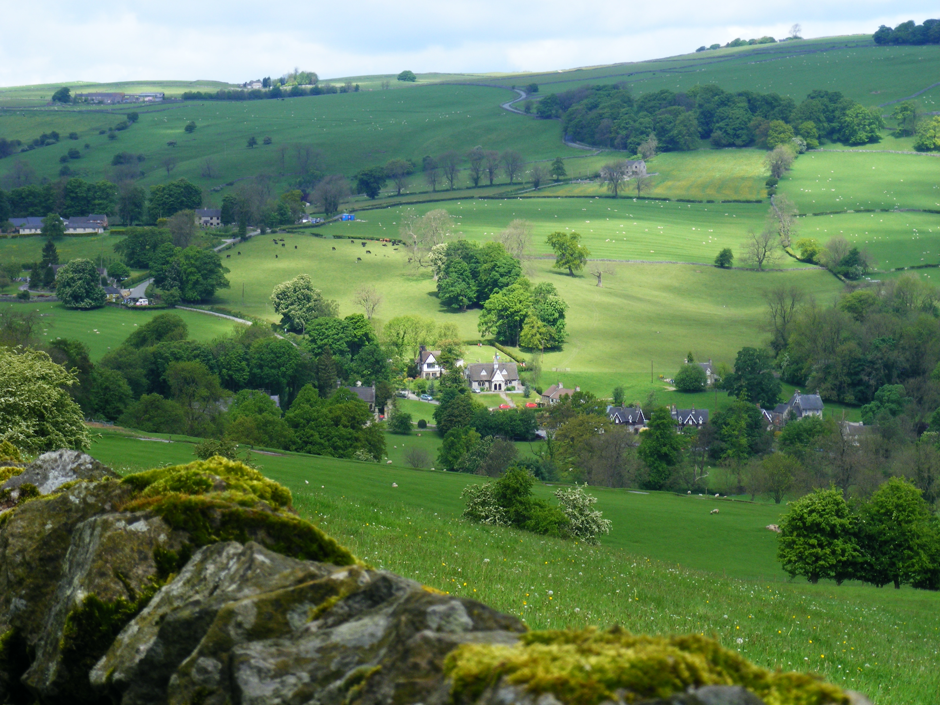 General view of Ilam (Staffordshire) village from Blore Pastures to the south. Ilam Hall is not visible behind trees on the left, but the village school may be clearly seen in the centre.